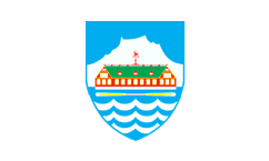 Flag of Godthåb in Denmark.